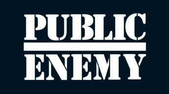 Public Enemy text part of logo